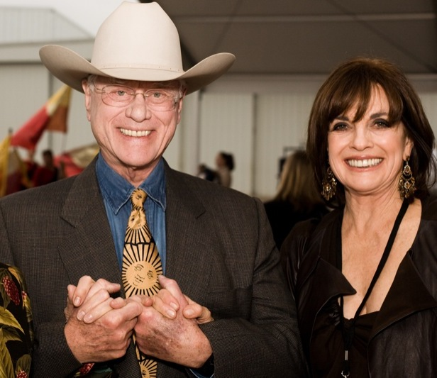 Larry Hagman and Linda Gray at Texas Film Hall of Fame Awards 2009